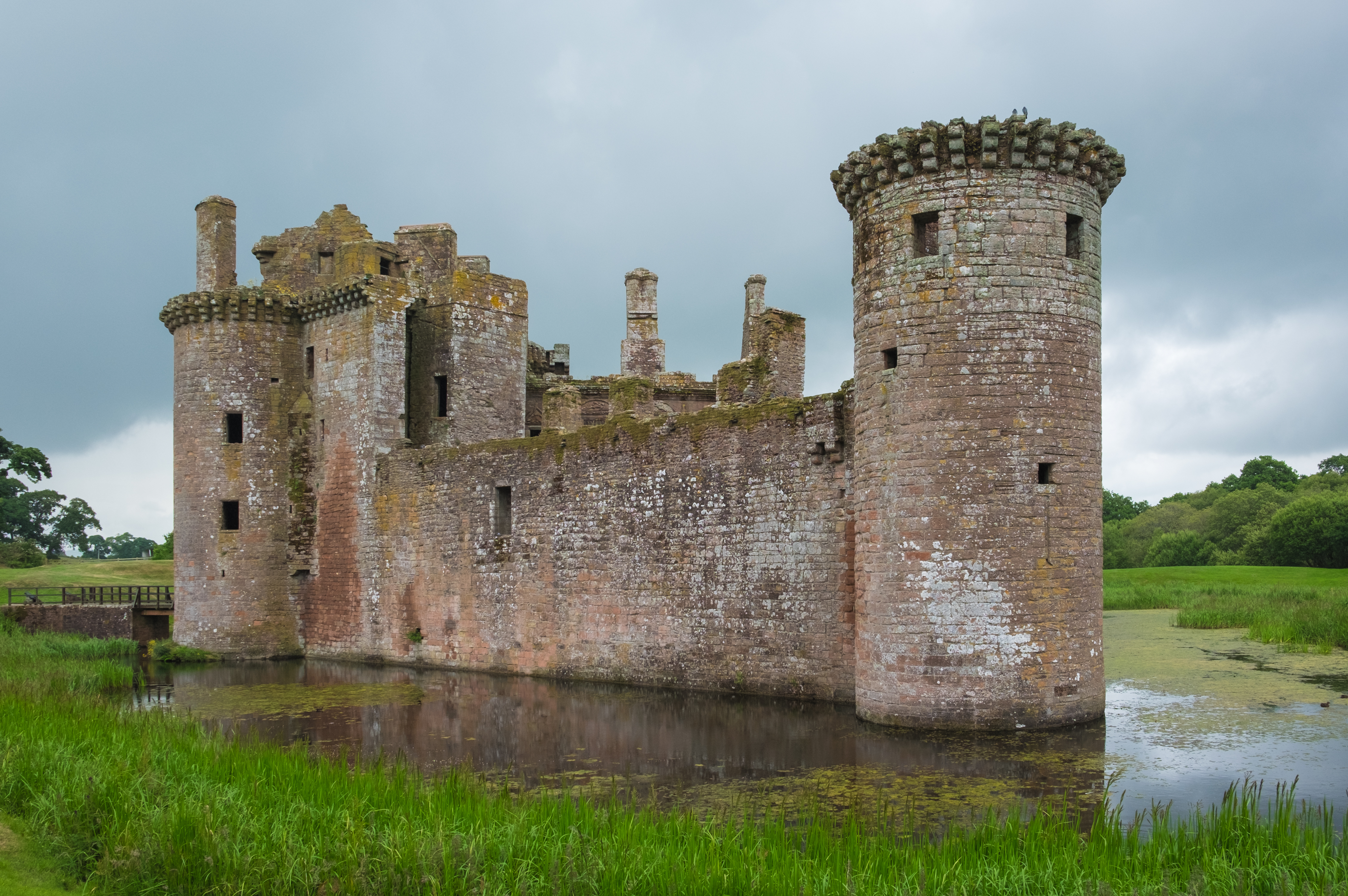 Caerlaverock Castle, Glencaple, Scotland. This 13th century castle is a scheduled monument in Scotland.